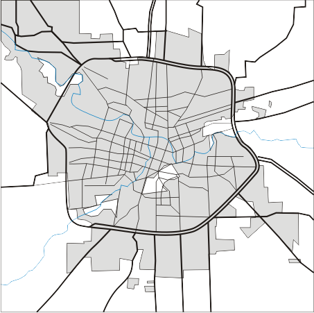 Map of main avenues and urban of Córdoba, Argentina.